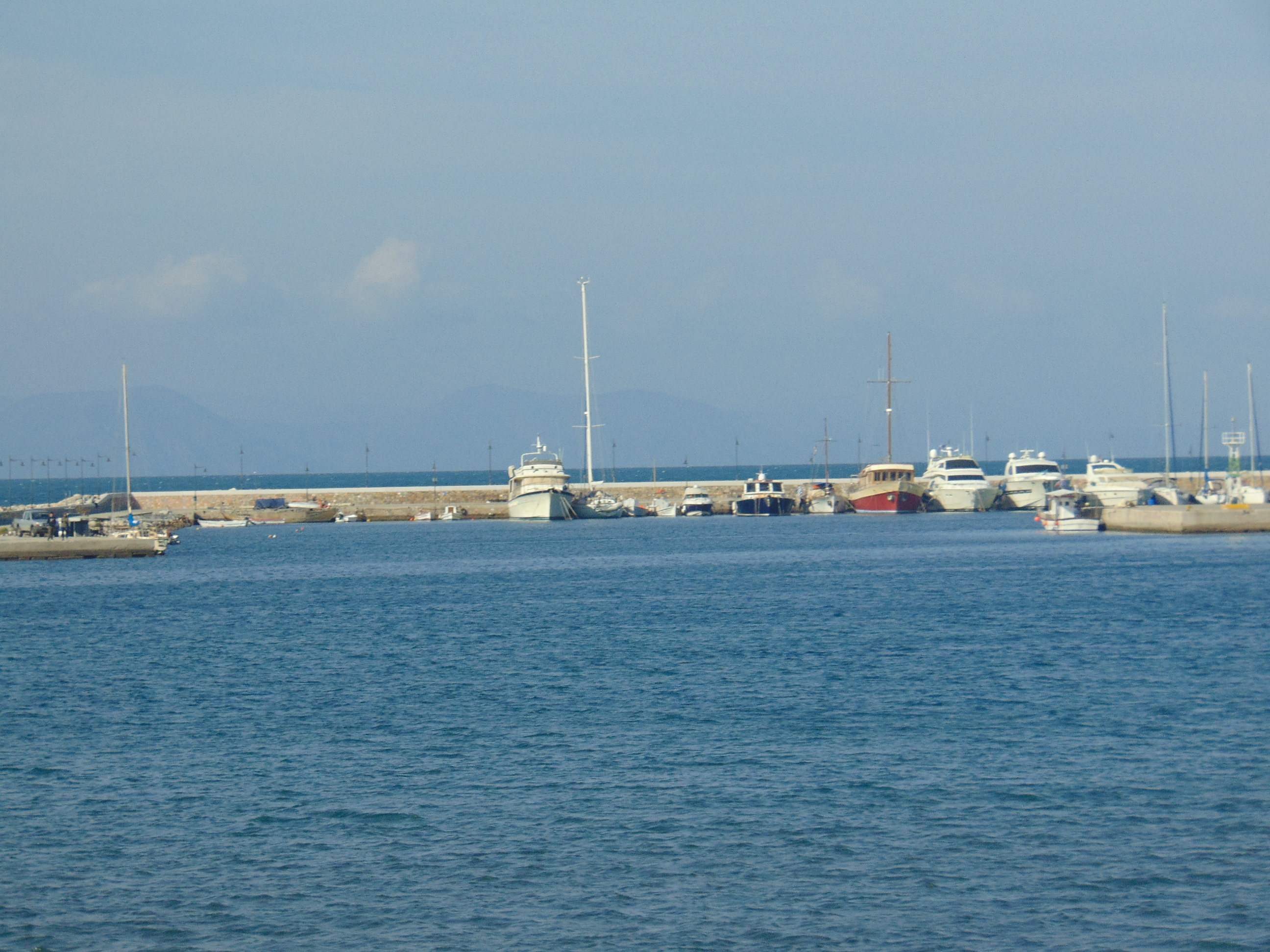 Nea Artaki, Evia, Greece